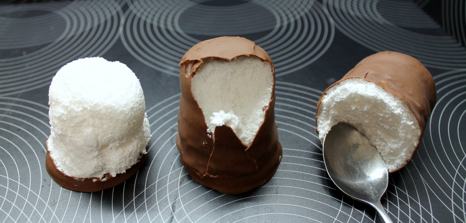 Three ways of eating Krembo, the Israeli treat